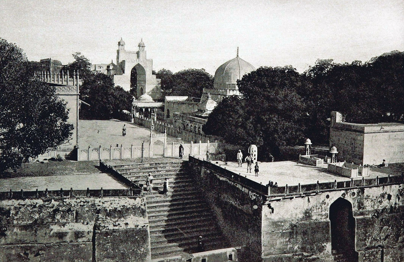 Image taken from: Title: "Bombay and Western India. A series of stray papers" Author: DOUGLAS, James - of Bombay Shelfmark: "British Library HMNTS 010056.h.10.", "British Library OC ORW.1986.a.2990" Volume: 01 Page: 338 Place of Publishing: London Date of Publishing: 1893 Publisher: Sampson Low & Co. Issuance: monographic Identifier: 000973604 Note: The colours, contrast and appearance of these illustrations are unlikely to be true to life. They are derived from scanned images that have been enhanced for machine interpretation and have been altered from their originals. If you wish to purchase a high quality copy of the page that this image is drawn from, please order it here. Please note that you will need to enter details from the above list - such as the shelfmark, the page, the book's volume and so on - when filling out your order. Explore: Find this item in the British Library catalogue, 'Explore'. Open the page in the British Library's itemViewer (page: 338) Download the PDF for this book Click here to see all the illustrations in this book and click here to browse other illustrations published in books in the same year. Please click on the tags shown on the right-hand side for other ways to browse the illustrations.